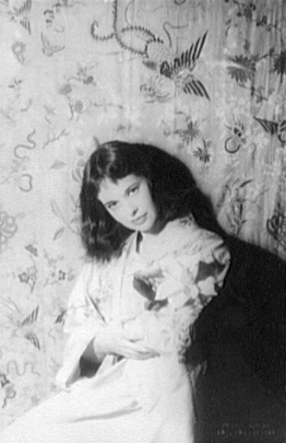 Gloria Vanderbilt 1958, photographed by Carl Van Vechten, 23 May 1958